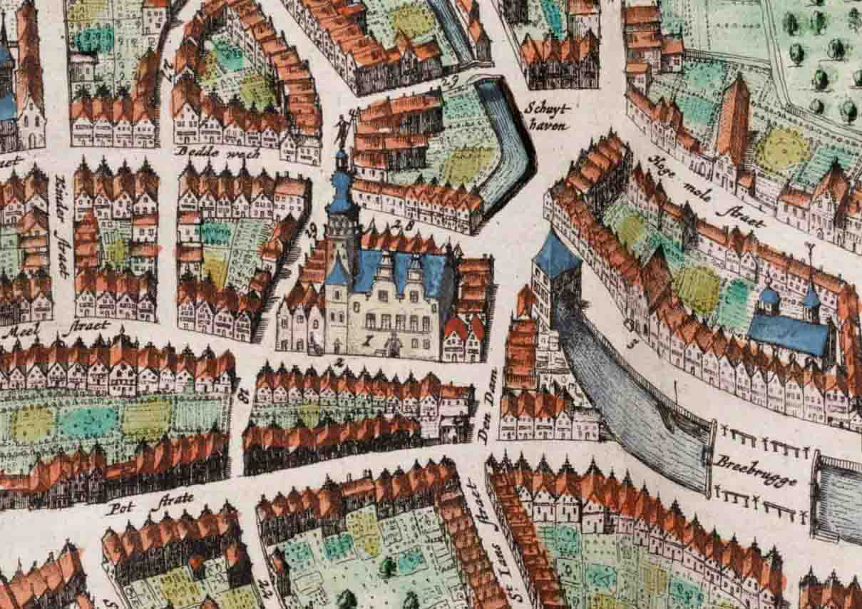 "Stadt huys" of Zierikzee, part of the map made by Blaeu in 1649